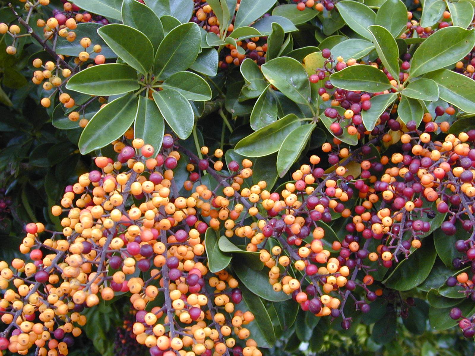 Schefflera arboricola (leaves and fruit). Location: Maui, Makawao Kee Rd